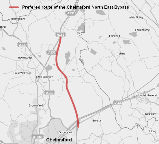 A map displaying the preferred route of the Chelmsford North East Bypass proposal. Overlaid on OpenStreetMap data.